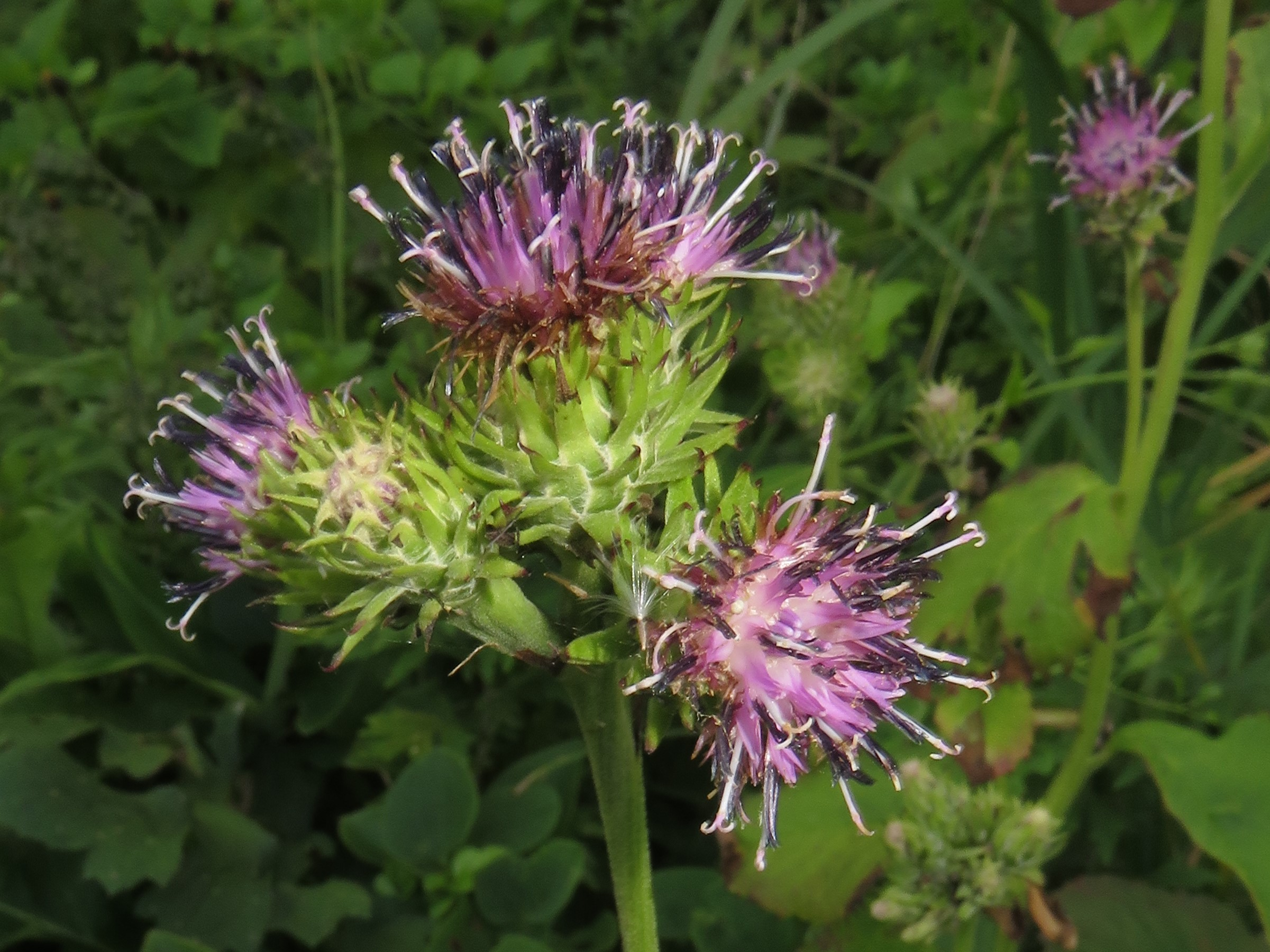 Saussurea neichiana, Tanesashi Coast, Aomori pref., Japan